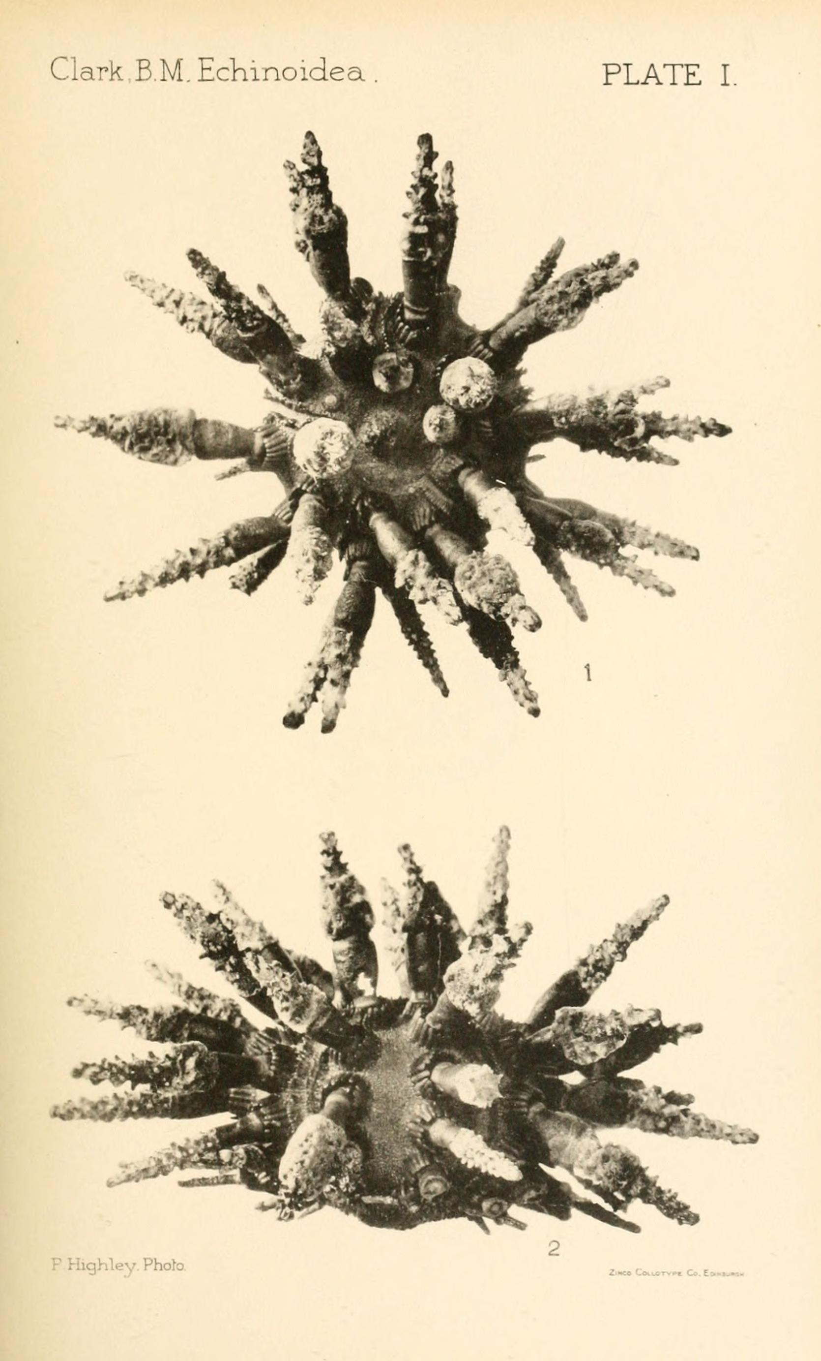 A catalogue of the recent sea-urchins (Echinoidea) in the collection of the British Museum (Natural History) / by Hubert Lyman Clark ; [with a preface by C. Tate Regan].